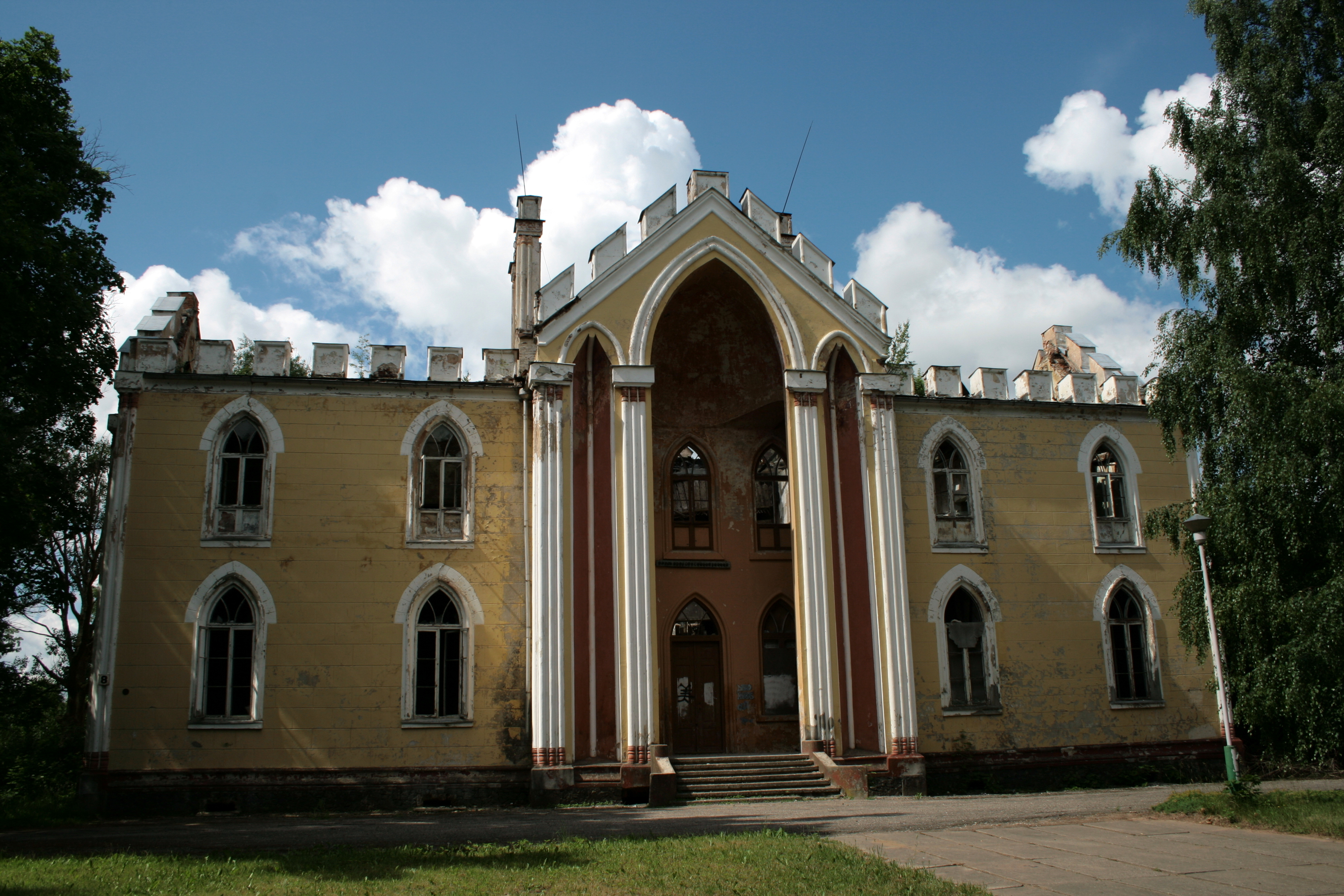 Radviliškis manor